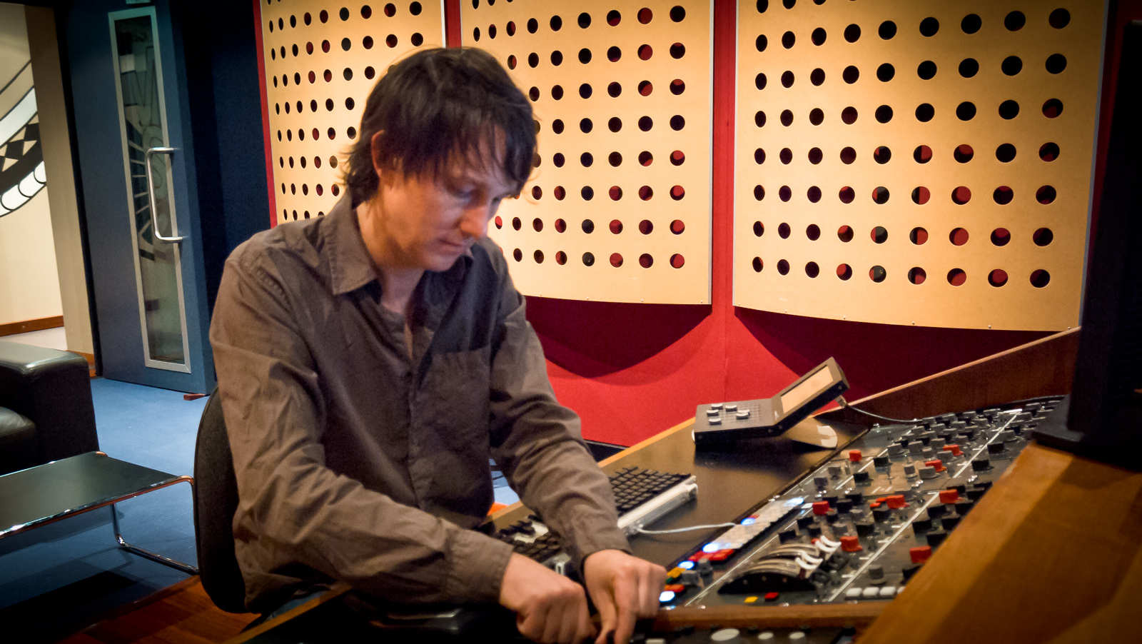 Studios 301 mastering engineer, and SBS television broadcasting technician Ben Feggans